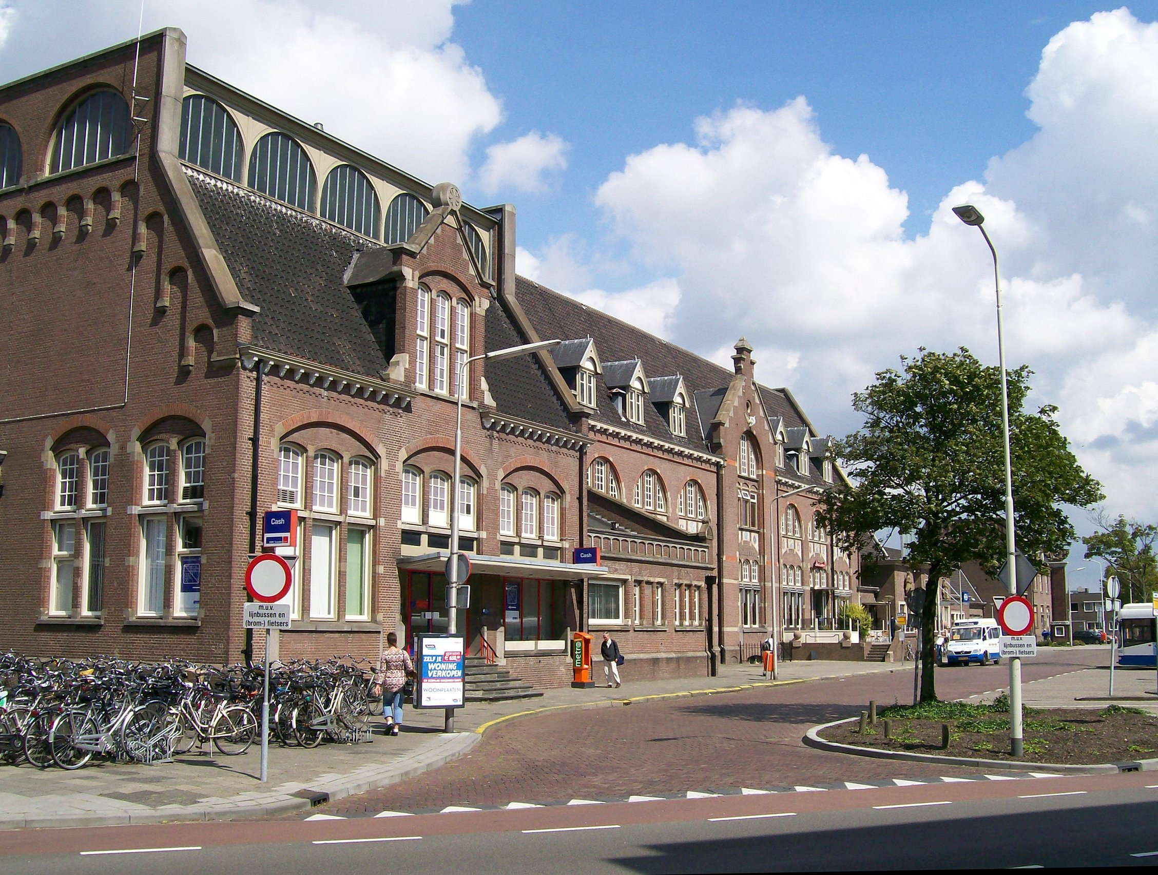 Train station Roosendaal, southwest side